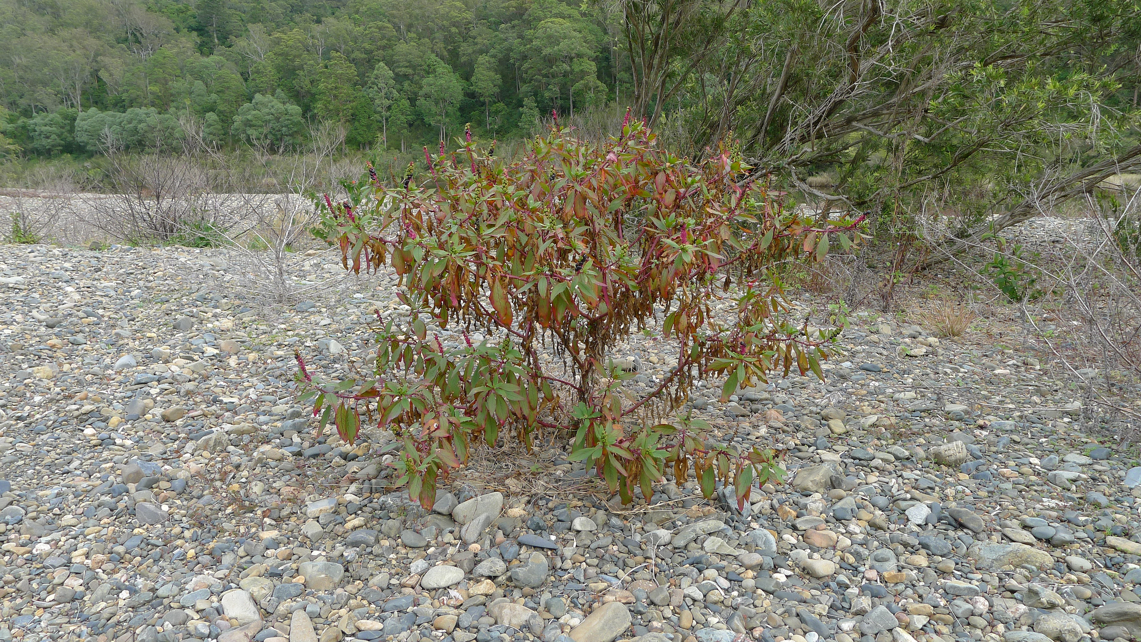 Inkweed, Phytolacca octandra, a weed of disturbed sites, usually in moist areas. Nymboida National Park, NSW, Australia, August 2014.